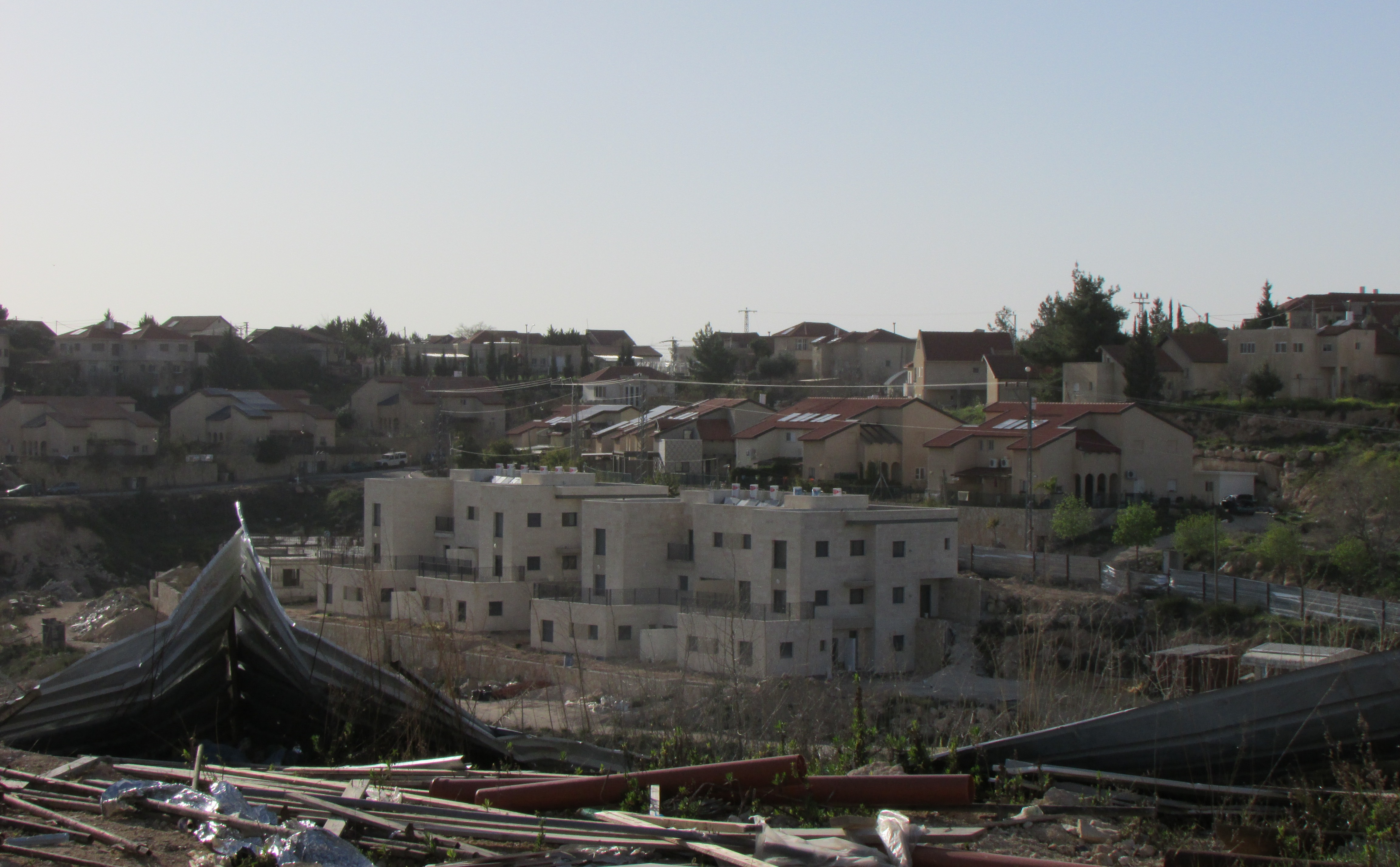 Otniel